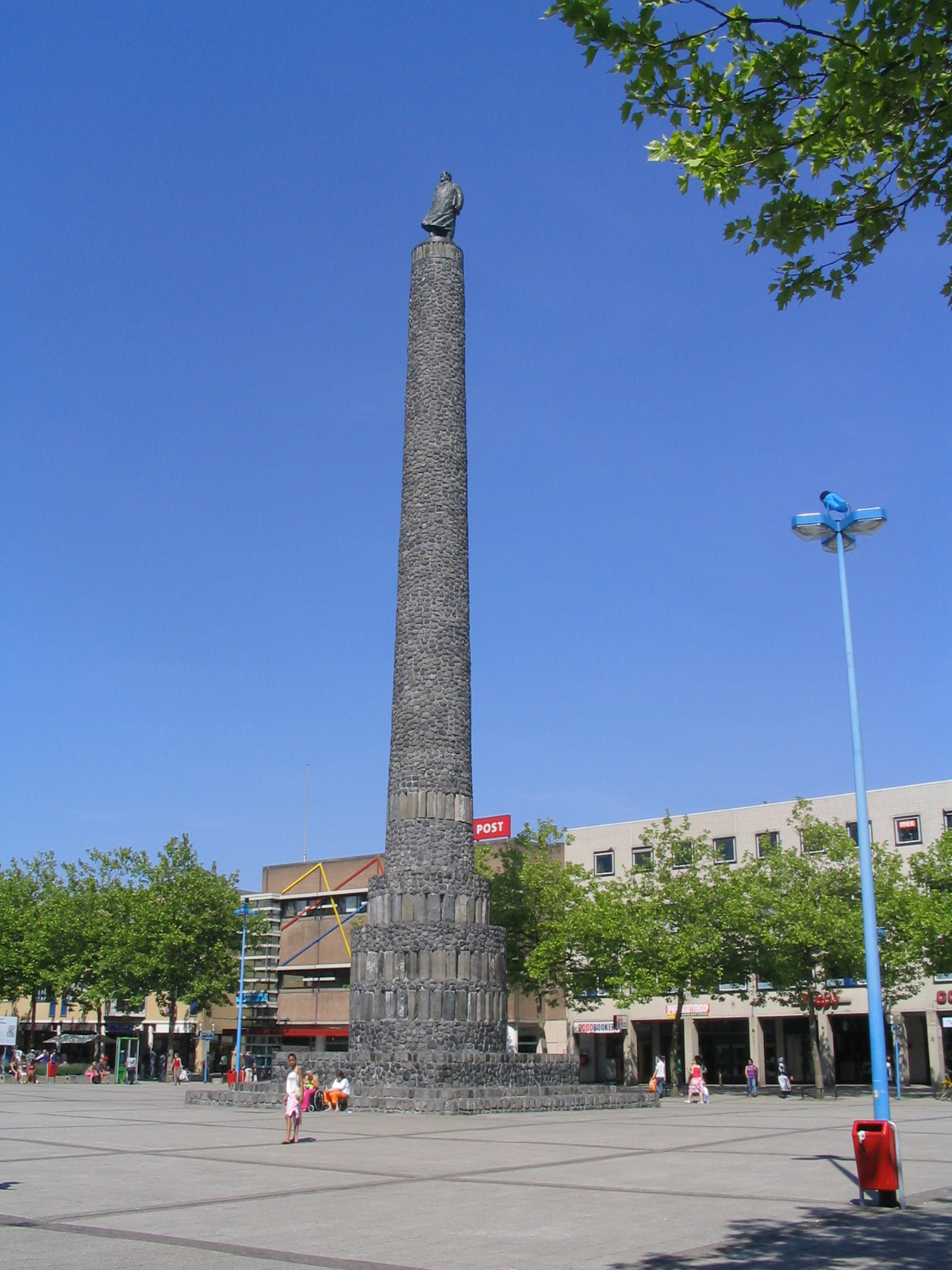 Zuil van Lely in het centrum van Lelystad, made by Hans va Houwelingen with a statue on top of it.The statue is the same one that stands at Den Oever and was originally made by Mari Andriessen.